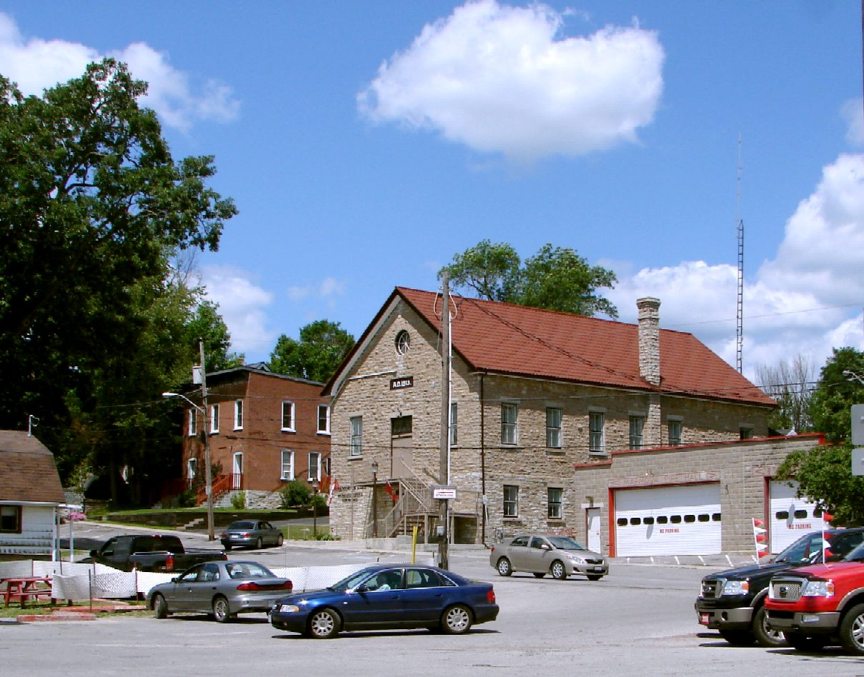 Municipal office of Marmora & Lake Township in Marmora, Ontario, Canada